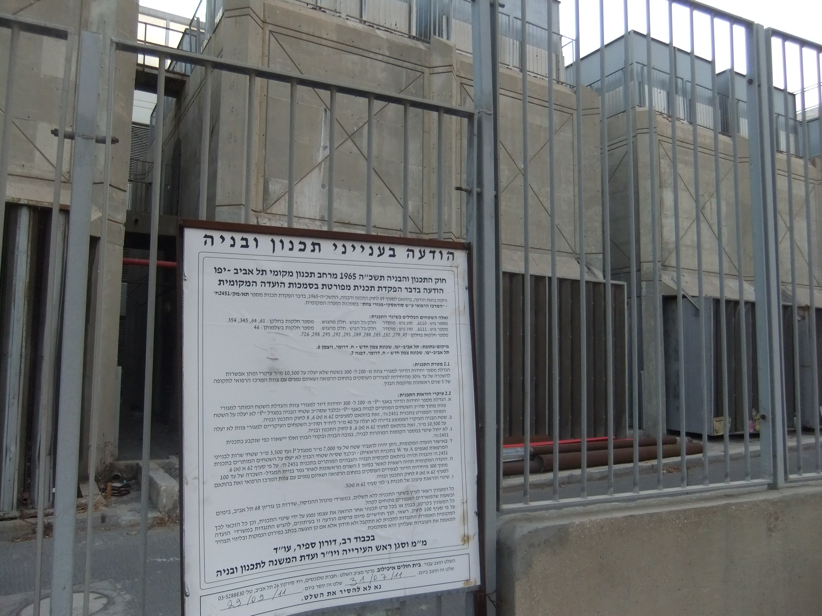 Notice of the local planning and design committee of Tel Aviv about a building plan in the Tel Aviv medical center